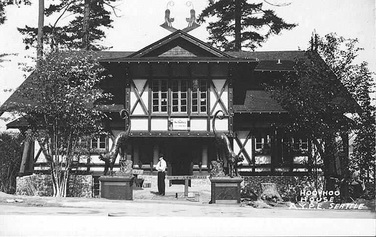 Hoo Hoo House, Alaska Yukon Pacific Exposition, Seattle, Washington, 1909. The building later became the University of Washington faculty club. Photographer: Unknown Subjects (LCSH): Hoo Hoo House (Seattle, Wash.) Exhibition buildings--Washington (State)--Seattle Alaska-Yukon-Pacific Exposition (1909 : Seattle, Wash.) Exhibitions--Washington (State)--Seattle Digital Collection: Alaska-Yukon-Pacific Exposition Collection Item Number: AYP445 Persistent URL: University of Washington Libraries. Digital Collections [#//content.lib.washington.edu%20